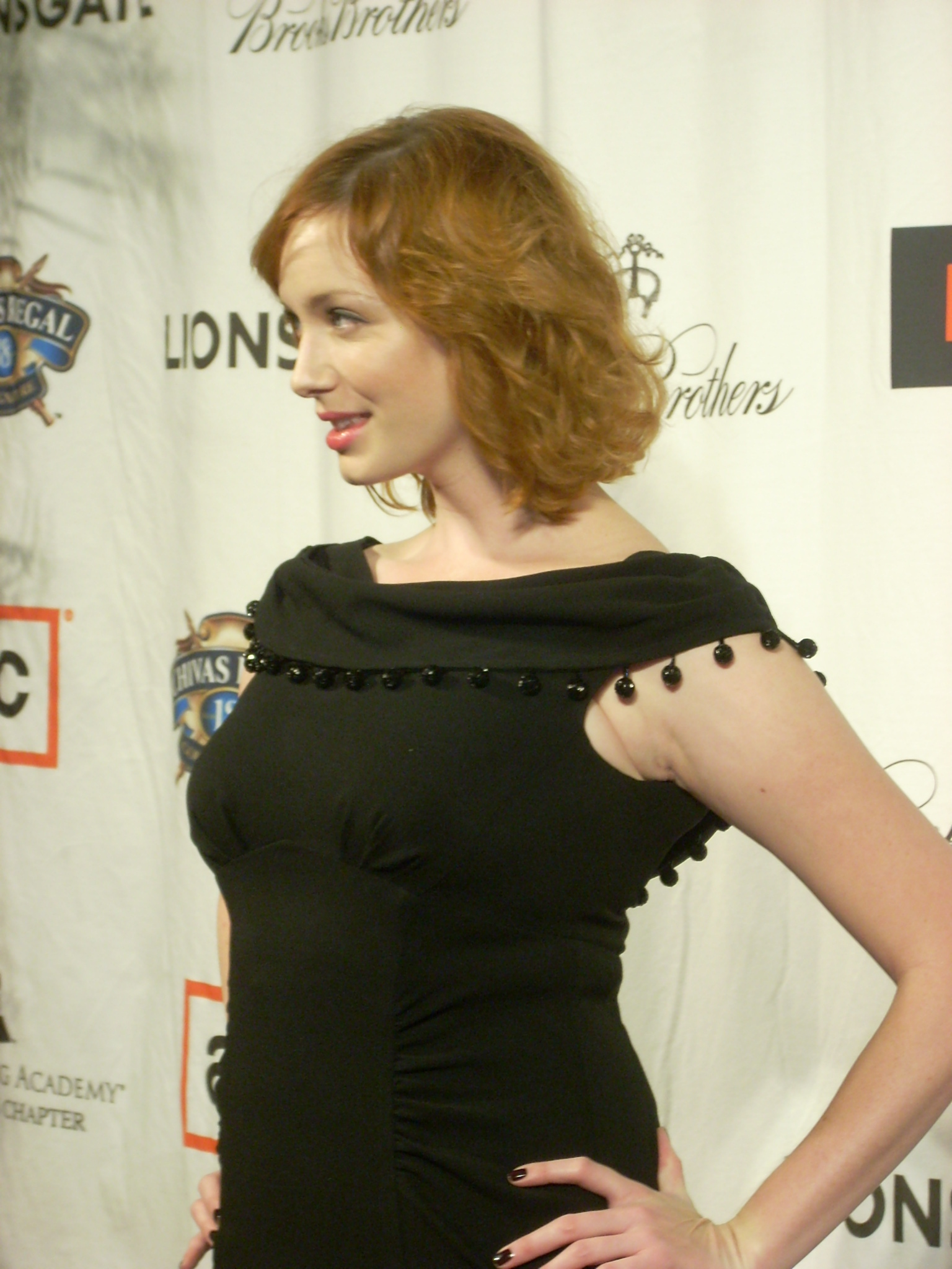 Actress Christina Hendricks at Chivas Regal Presents a Night on the Town with "Mad Men" - El Rey Theater, Los Angeles - Oct. 21, 2008